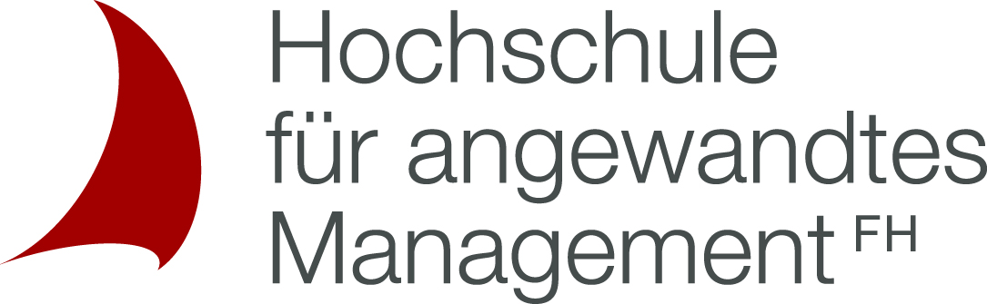 University of Applied Management Logo